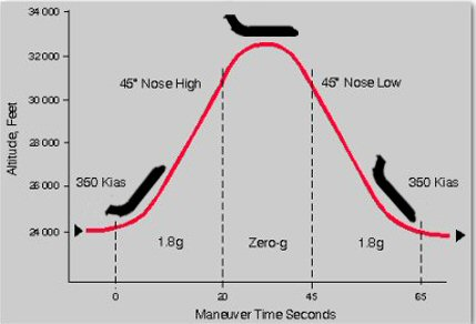 Flight trajectory for a typical zero gravity flight maneuver.